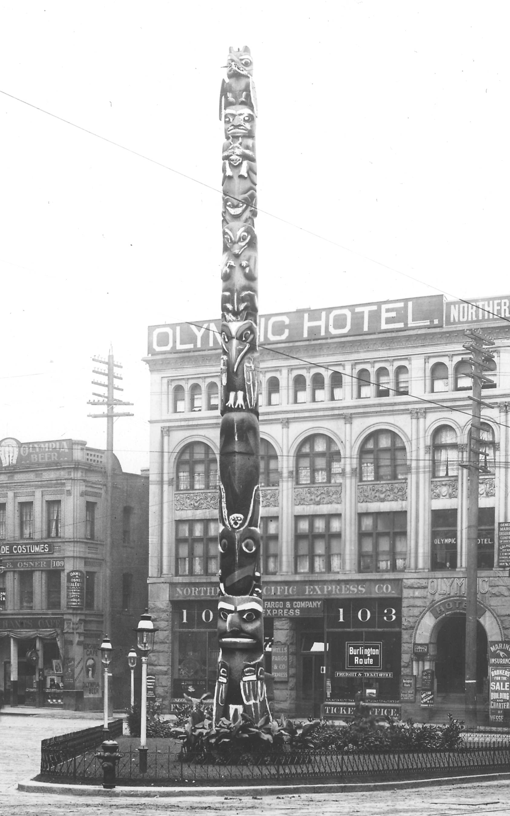 Cannot be later that 1909, because the Pioneer Square Pergola is not yet in place. Located at the intersection of James St., Yesler Way and 1st. Ave .Caption on image: 241 LH .Signs in image include: Merchants Cafe, Olympia Beer .Olympic Hotel .Northern Pacific Ticket Office .Burlington Route Freight and Ticket Office .Warner 3018 Subjects (LCTGM): Totem poles--Washington (State)--Seattle; Hotels--Washington (State)--Seattle Subjects (LCSH): Pioneer Square (Seattle, Wash.); Olympic Hotel (Seattle, Wash.); James Street (Seattle, Wash.); First Avenue (Seattle, Wash.); Yesler Way (Seattle, Wash.)